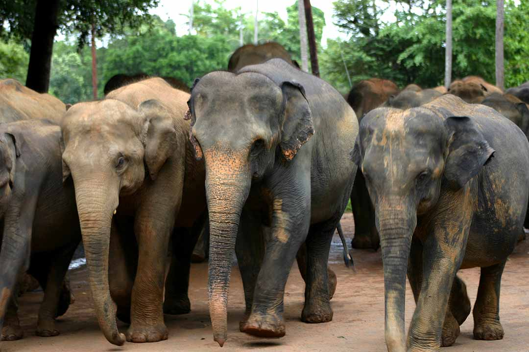 Elephants in Sri Lanka. The Sri Lankan Elephant (Elephas maximus maximus) is the nominate subspecies of the Asian Elephant and is the largest of the subspecies although smaller than the two species of African elephants.